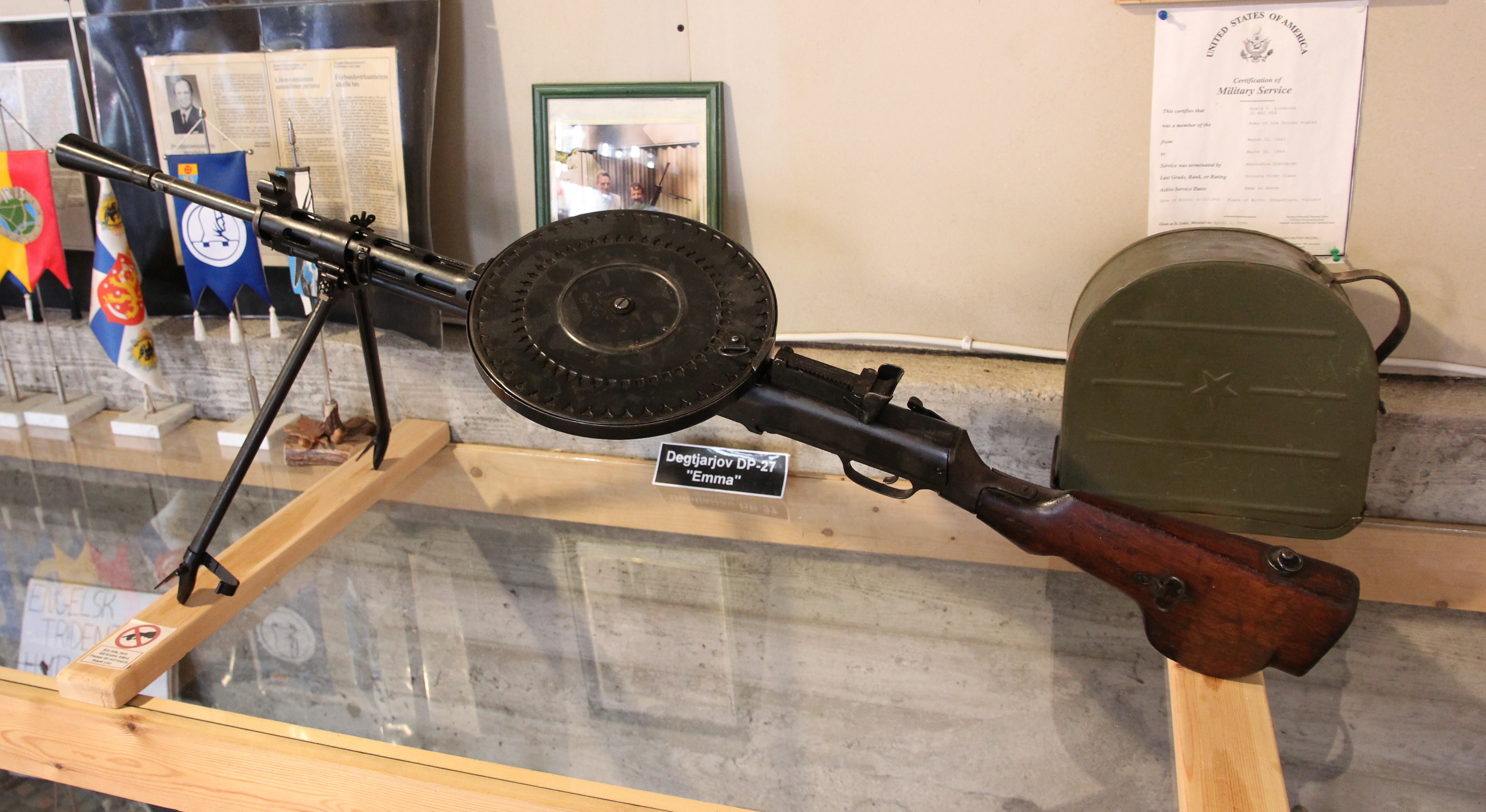 Degtyarev DP-27 light machine gun in the Cannons of Torp museum. Finnish nickname "Emma".